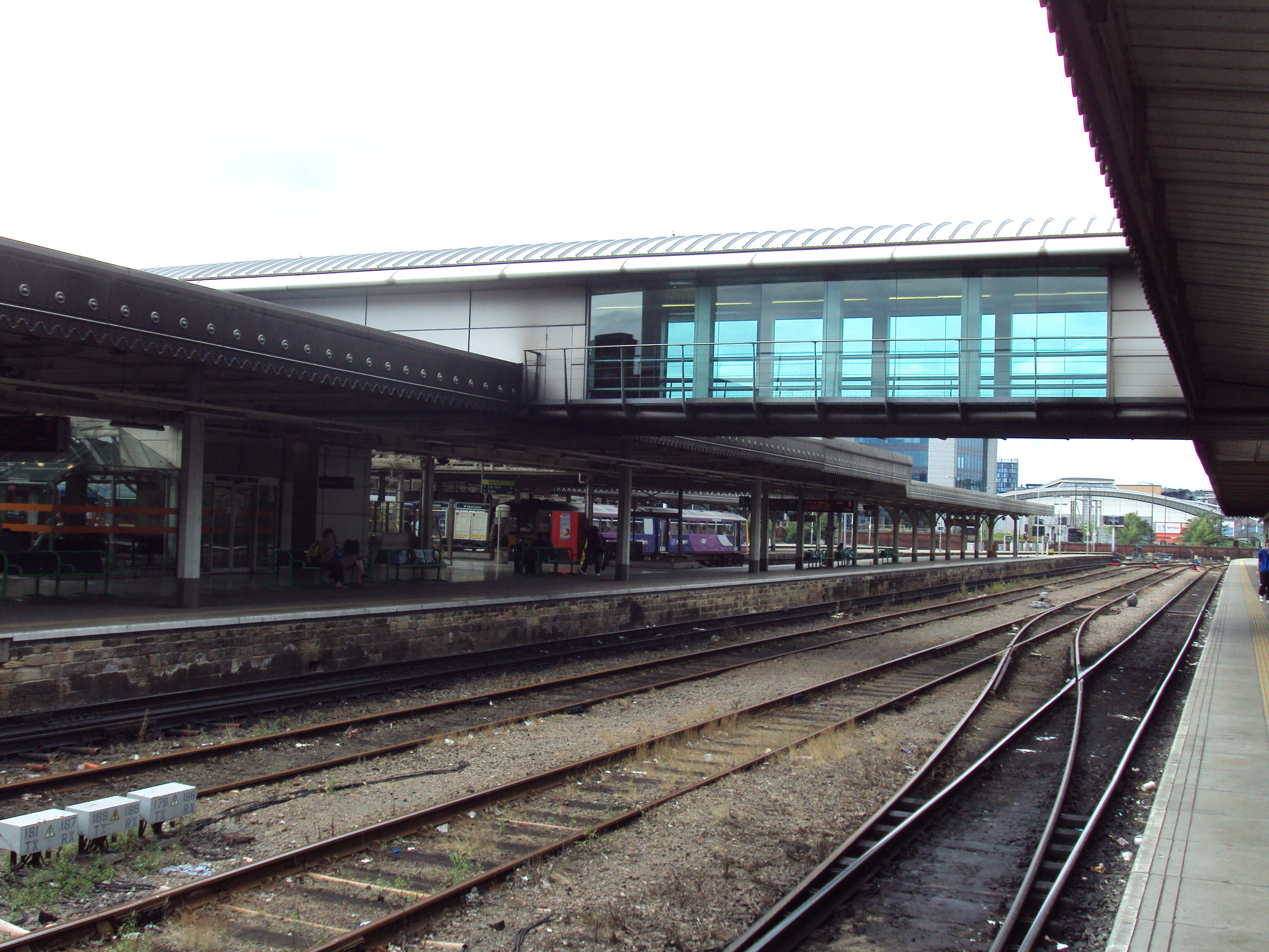 Sheffield railway station, England.